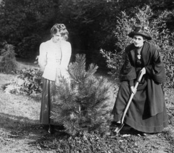 Rose Emma Lamartine Yates. From a unique collection of glass plate negatives taken by Col. Linley Blathwayt of Eagle House, Batheaston, home of refuge for suffragettes between 1908 and 1912. He died in 1919. The pictures are made available in larger formats by . - who claim copyright of these 100 year old plus published pictures